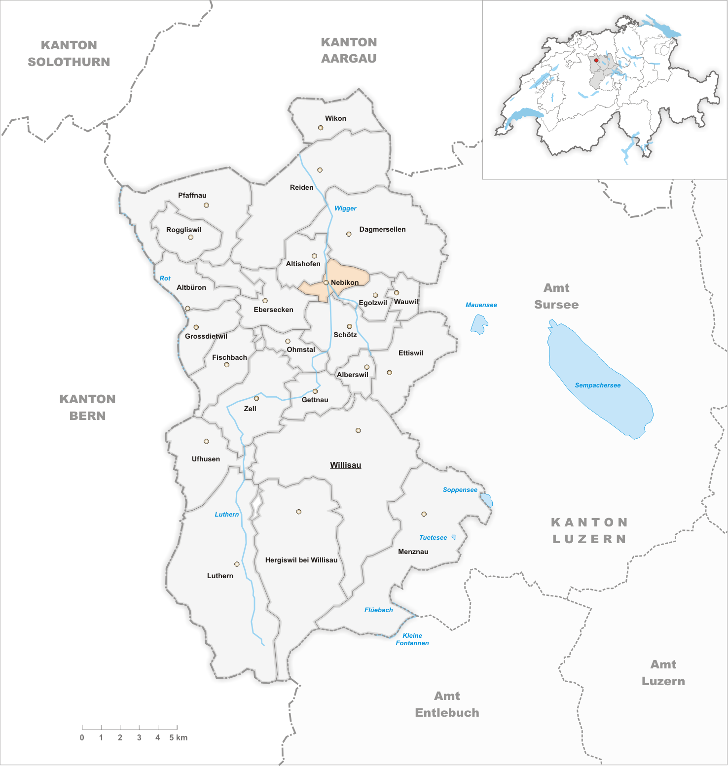 Municipality Nebikon